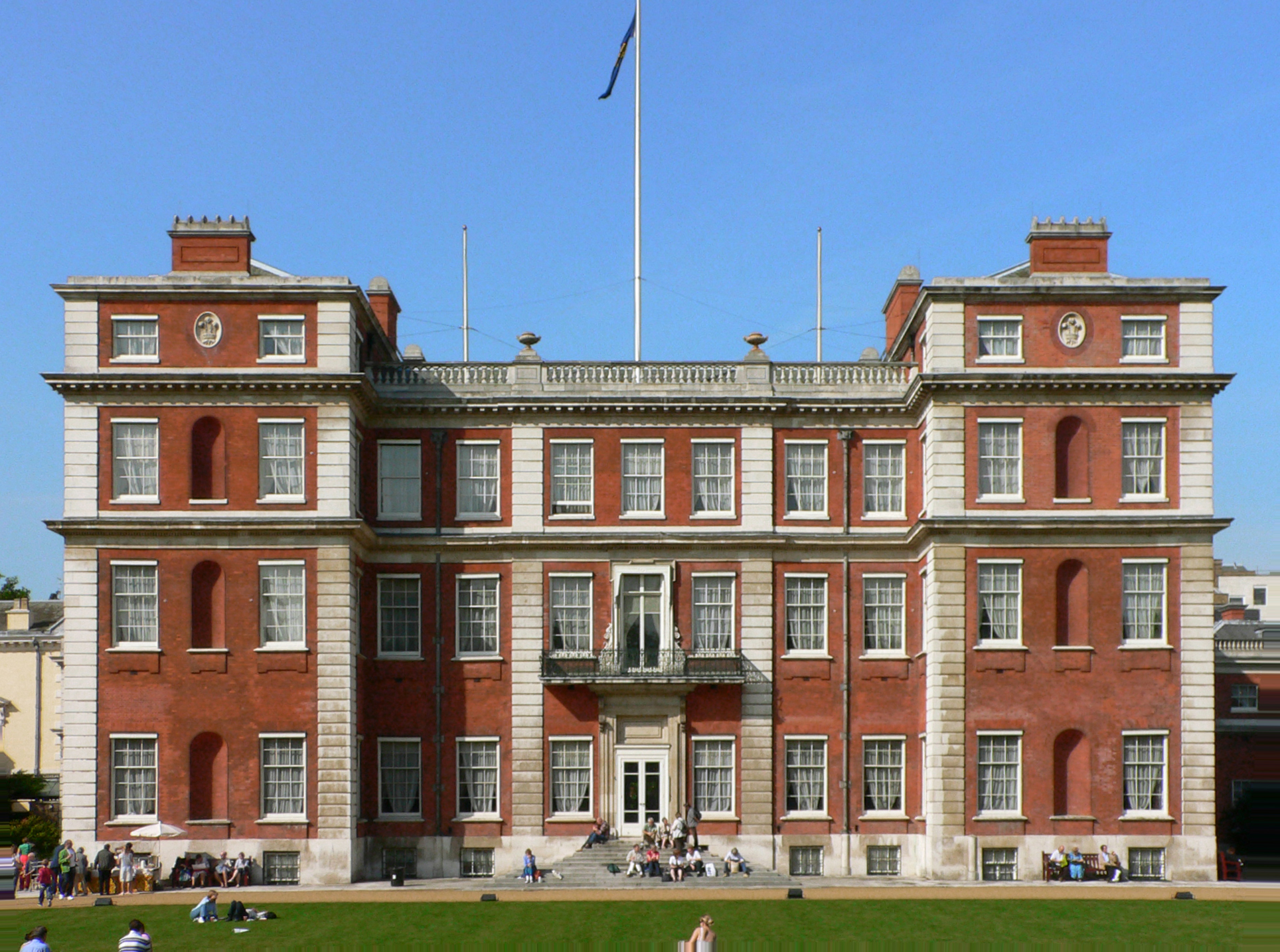 Marlborough House - South side